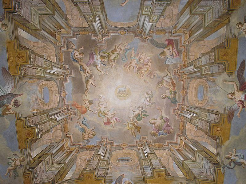 Parish church St. Martin (Baindlkirch near Ried, Bavaria, Germany). Great fresco (nave), western part. (Johann Joseph Anton Huber, 1810)